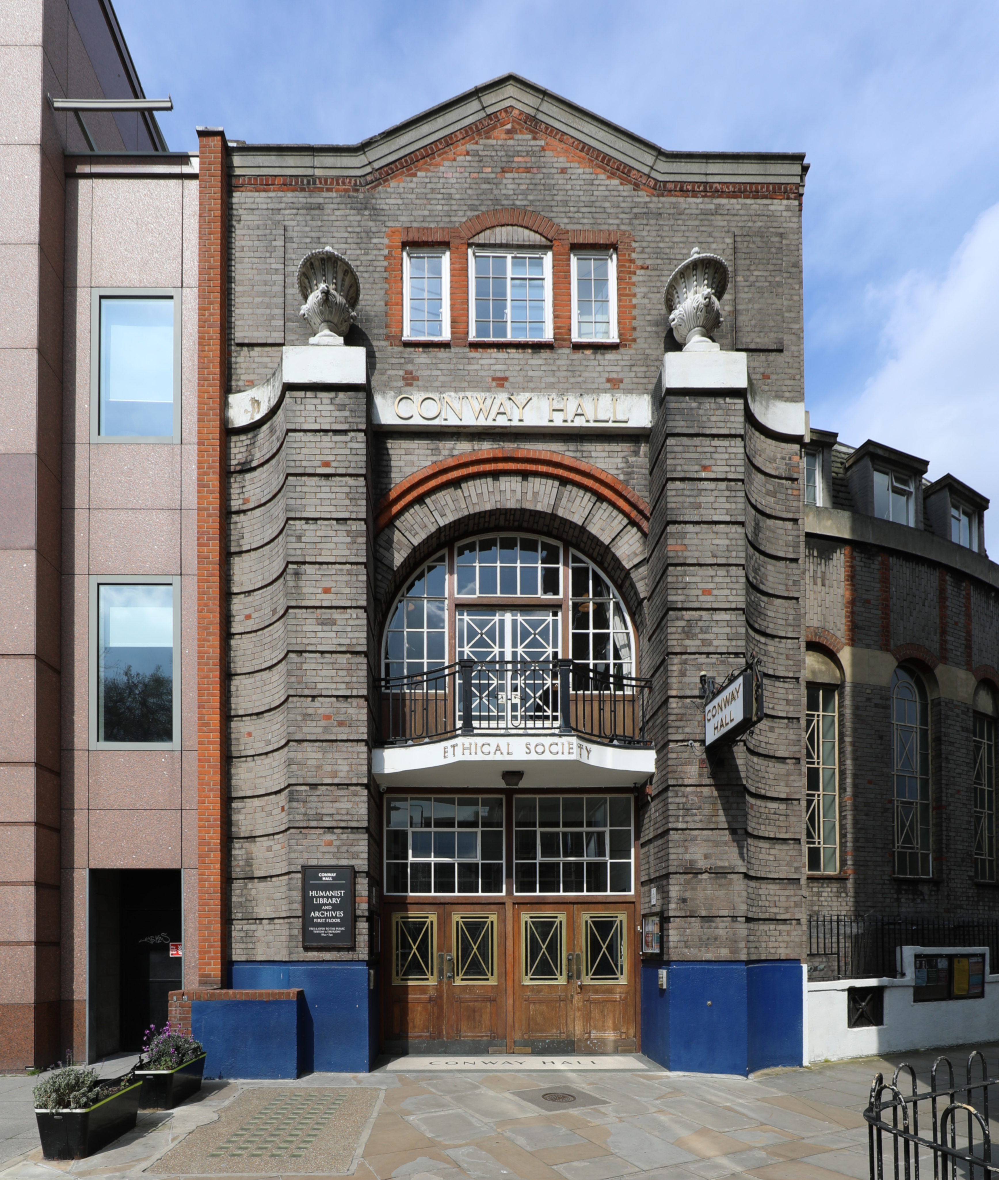 Photo of the entrance to Conway hall